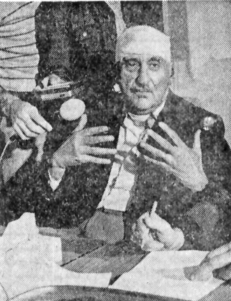 Nematollah Nassiri arrested and brought to an "islamic court" to be tried and ultimately be executed the same day